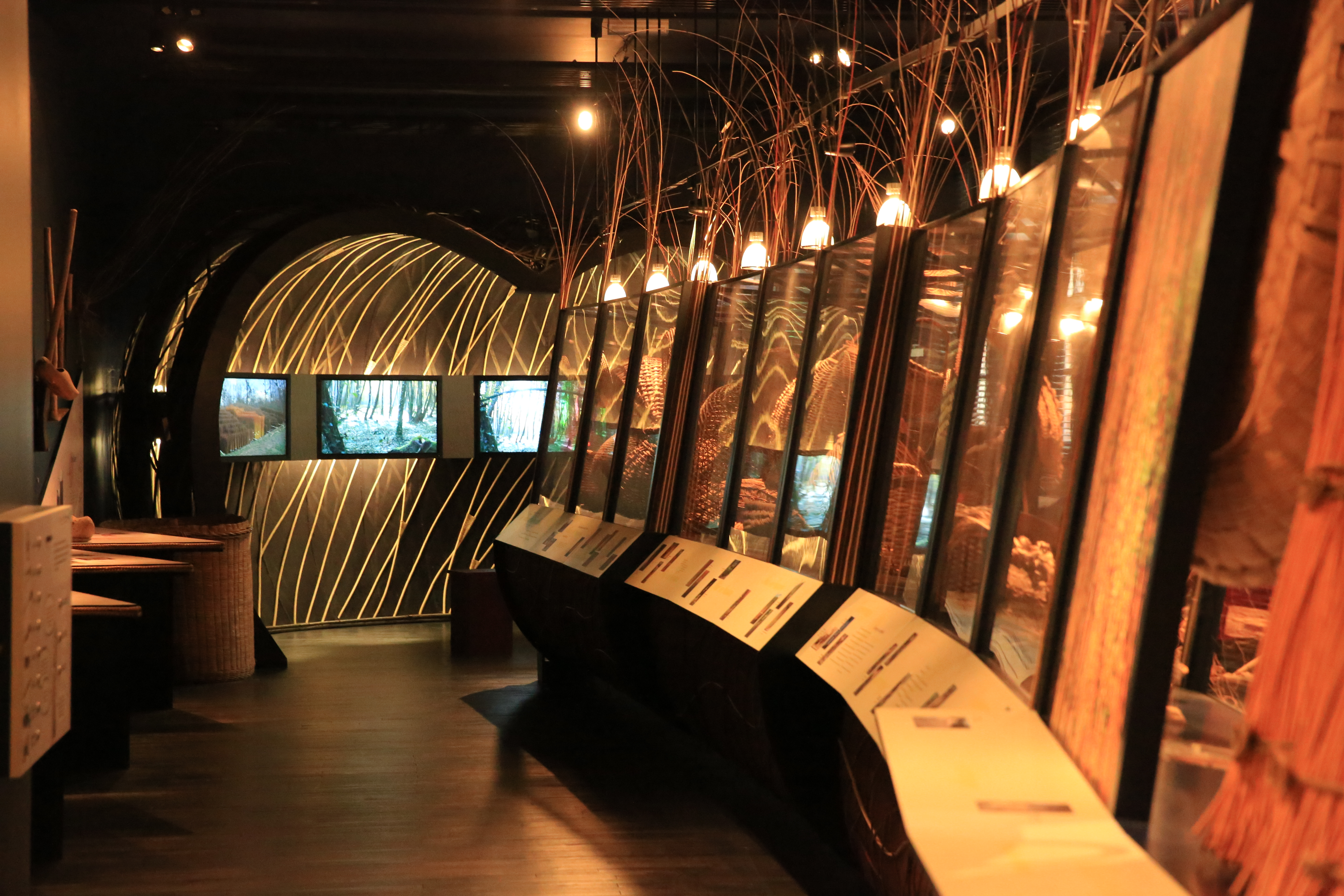 Museum of basketry in Villaines-les Rochers.